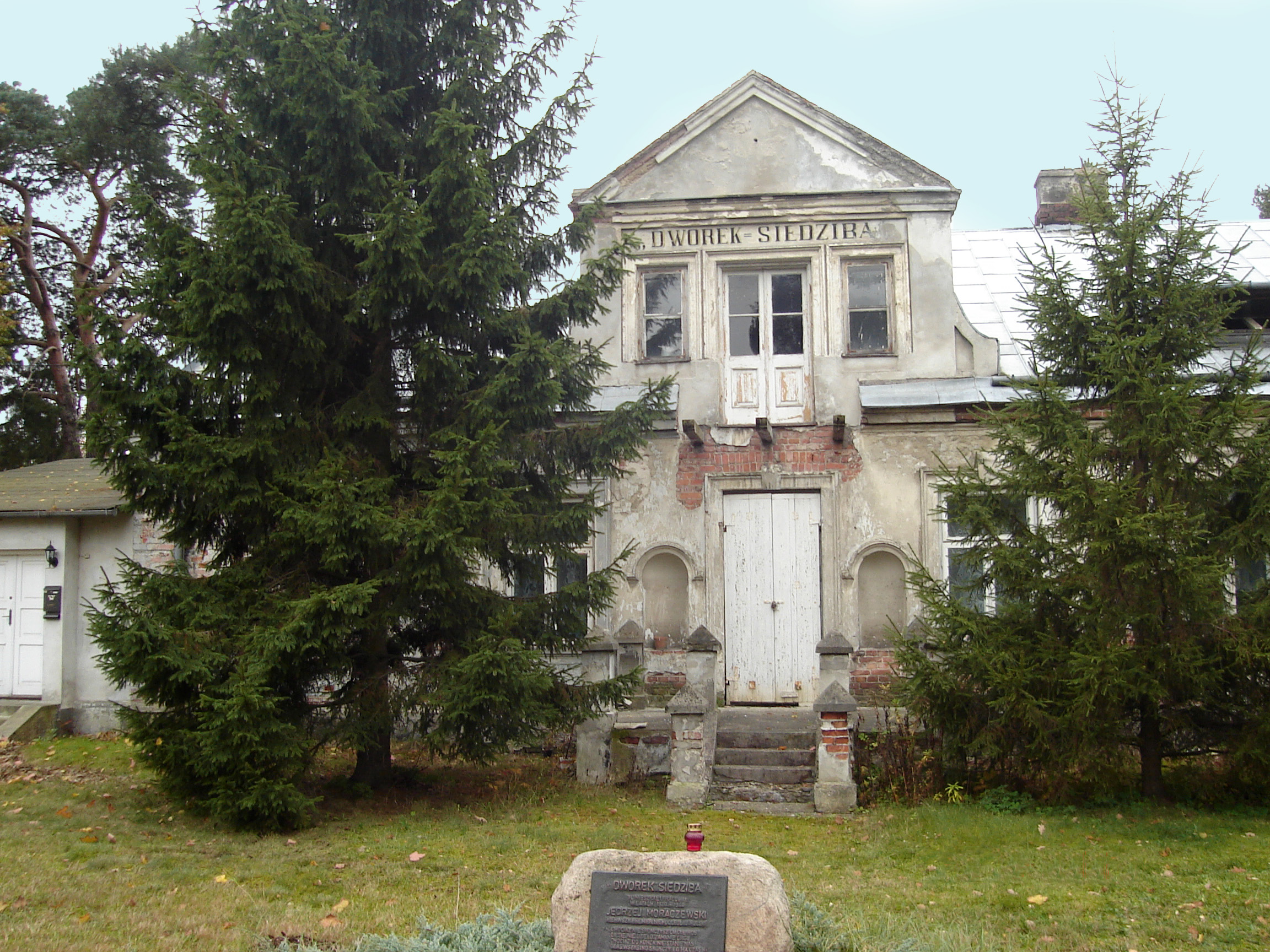 Siedziba Residence in Sulejówek, Poland